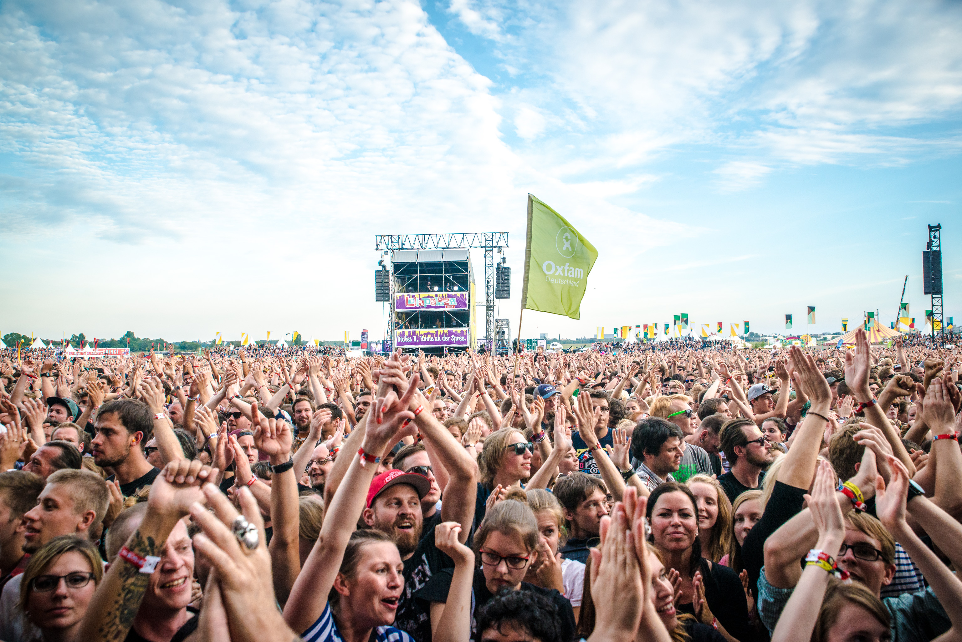 Lollapalooza Festival Berlin Impressionen 2015